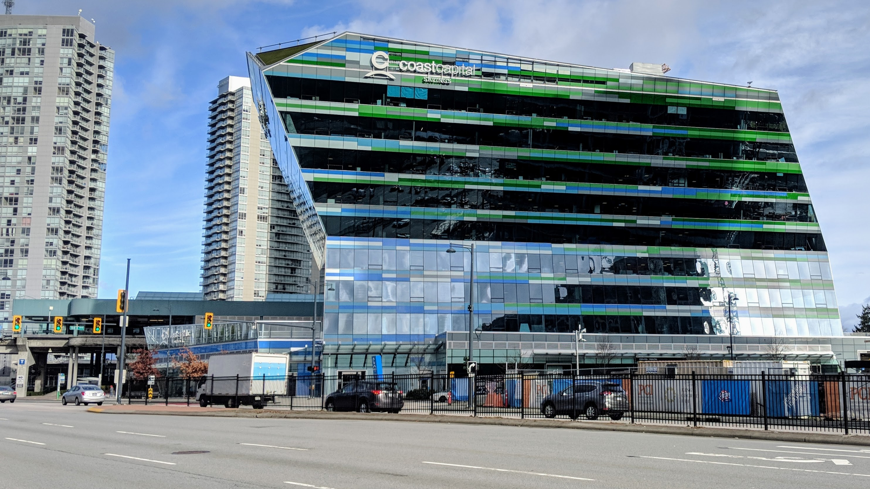 Head office for Coast Capital Savings credit union located at the King George Hub complex in Surrey City Centre. Photo taken in February 2020.